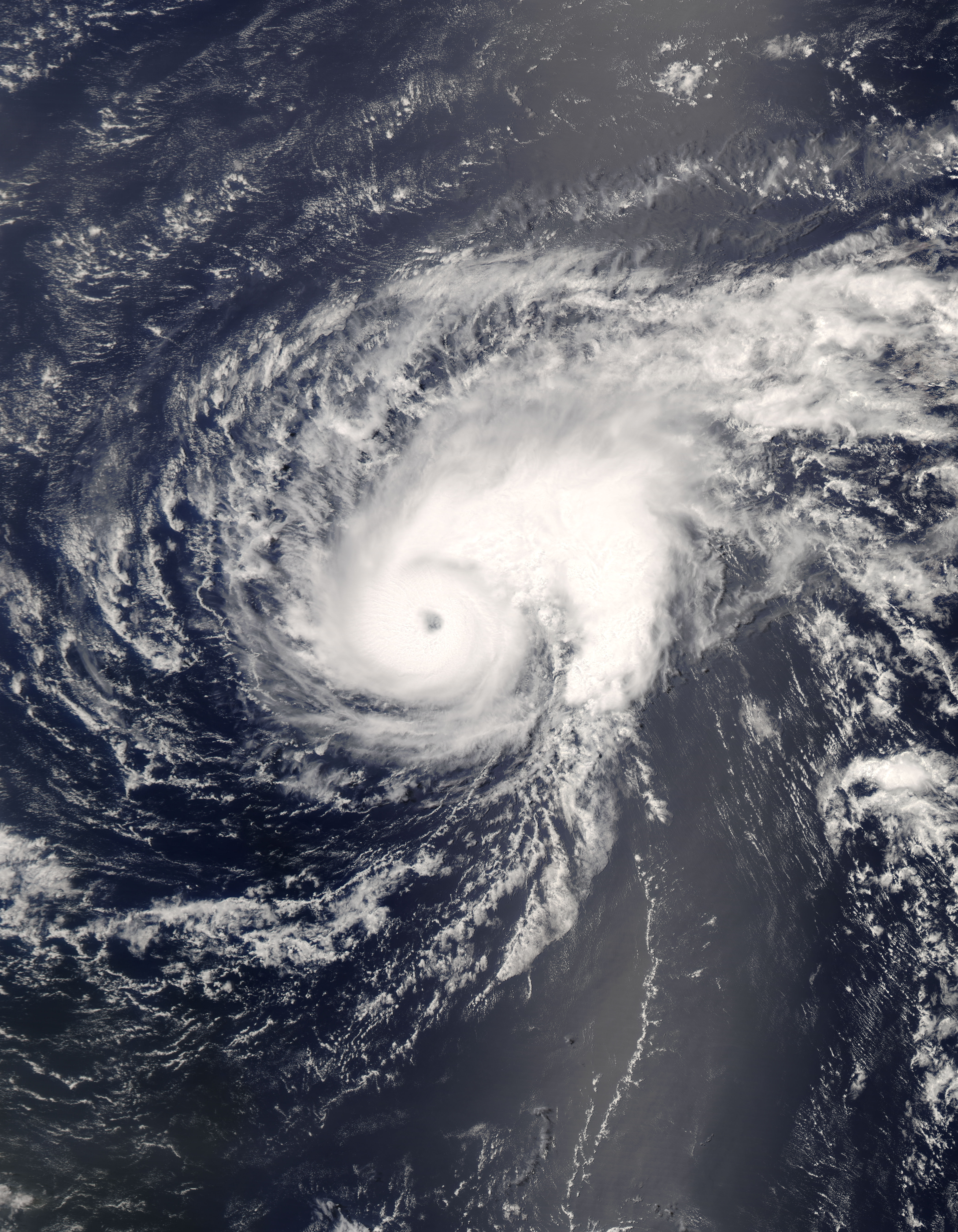 MODIS image of Hurricane Bertha. 1630Z